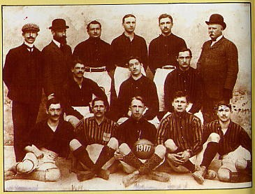 Italian Football Champion 1907 (AC Milan). From Left to Right; back: Daniele Angeloni (coach), Nathan (vice-president), Andrea Meschia, Gerolamo Radice, Guido Moda, Alfred Edward (president); middle: Alfred Bosshard, Attilio Trerè, Gian Guido Piazza; front: Alessandro Trerè, Herbert Kilpin (captain), Ernst Widmer, Hans Walter Imhoff, Johann Ferdinand Mädler.